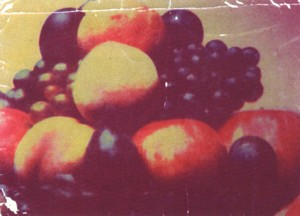 A photographic colour print made on a bleach-out type of printing paper developed by Jan Szczepanik and marketed by Agfa around 1910, which made use of the fact that a dye of a particular colour is most strongly bleached by light of the complementary colour. Superimposed dye layers of the subtractive primary colours cyan, magenta and yellow are therefore eventually bleached to the colour of the light falling on them. The basic principle was the subject of experiments by Sir John Herschel in the 1840s; its application to three-colour photography was conceived and published in an essentially complete form by Louis Ducos du Hauron later in the 19th century. In practice, long exposures in direct sunlight were necessary and the results could not be made sufficiently light-fast to allow prolonged open display without fading. Little-used, such papers were most suited to printing under painted or stained glass or art glass, but they were primarily marketed to photographers who wanted to make paper prints from Autochromes and other early glass-based colour photographs.